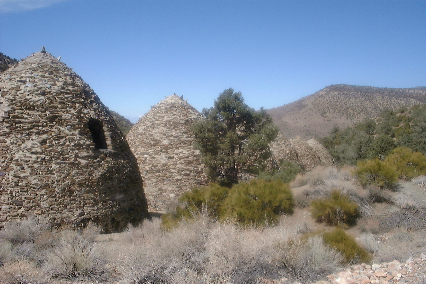 Wildrose Charcoal Kilns, DVNP